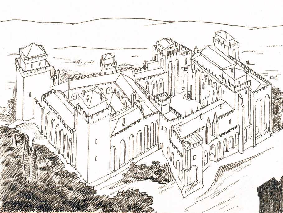 Le Palais des Papes en Avignon, drawing, work of Joseph ROSIER based on ELEMENTS ET THEORIE DE L'ARCHITECTURE (GUADET)